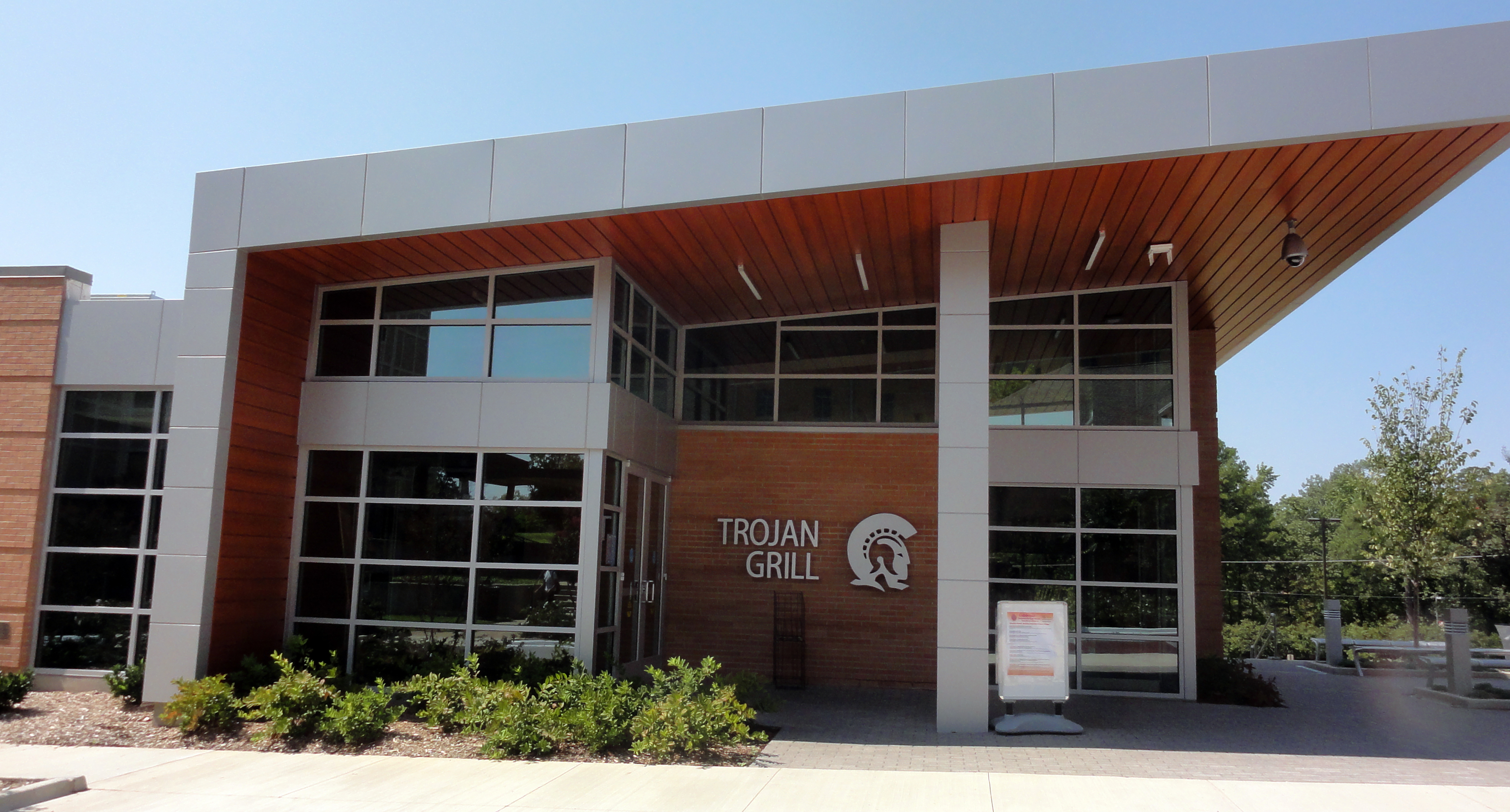 UALR Trojan Grill